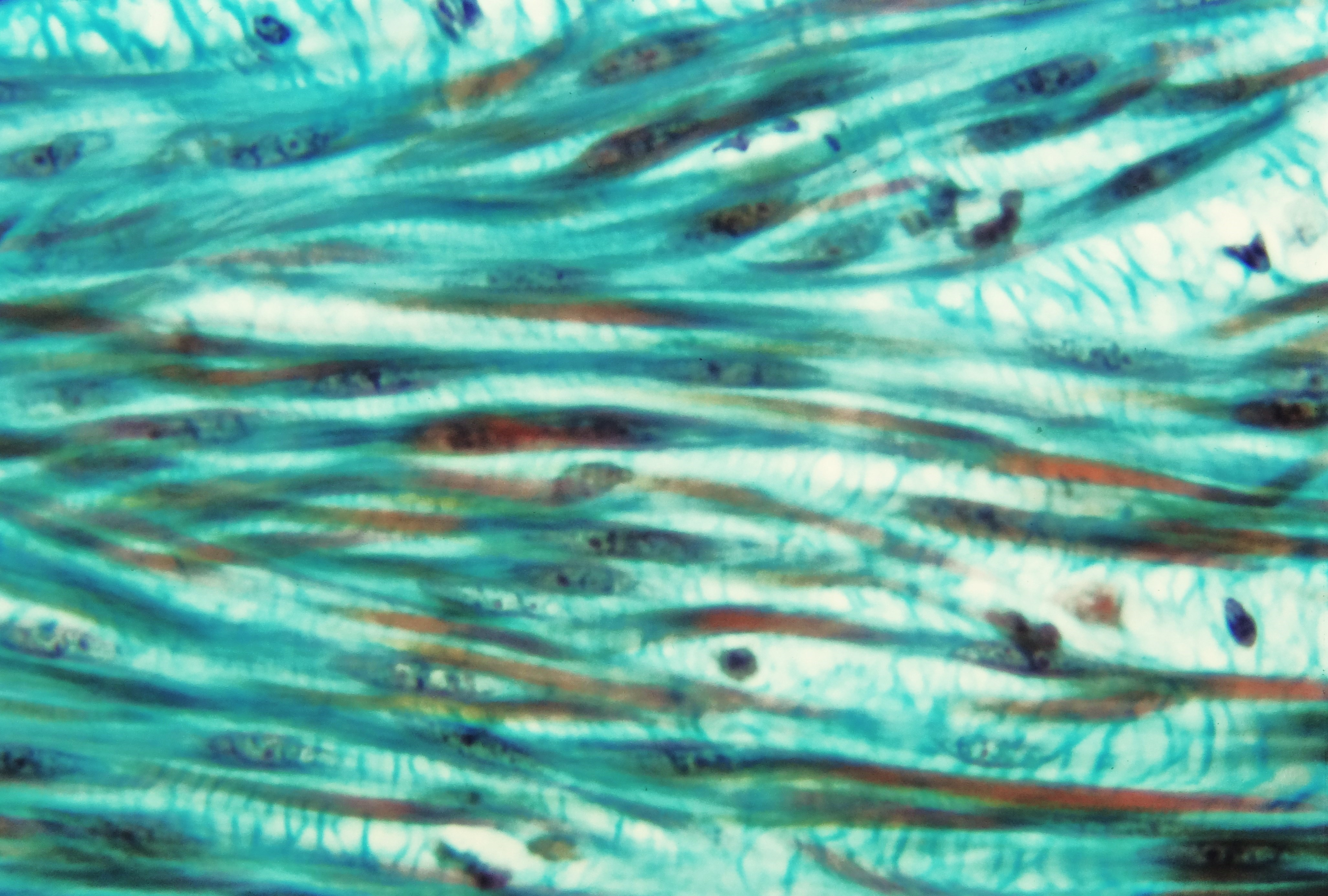 Light micrograph of longitudinally sectioned smooth muscle tissue (Masson/Goldner-staining